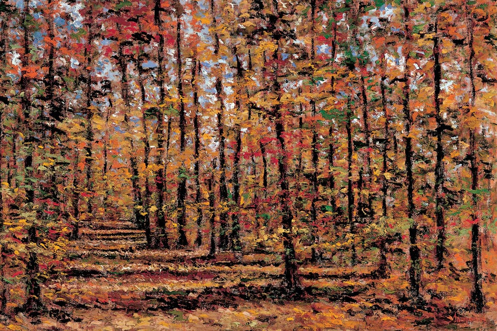 Walking with Giants